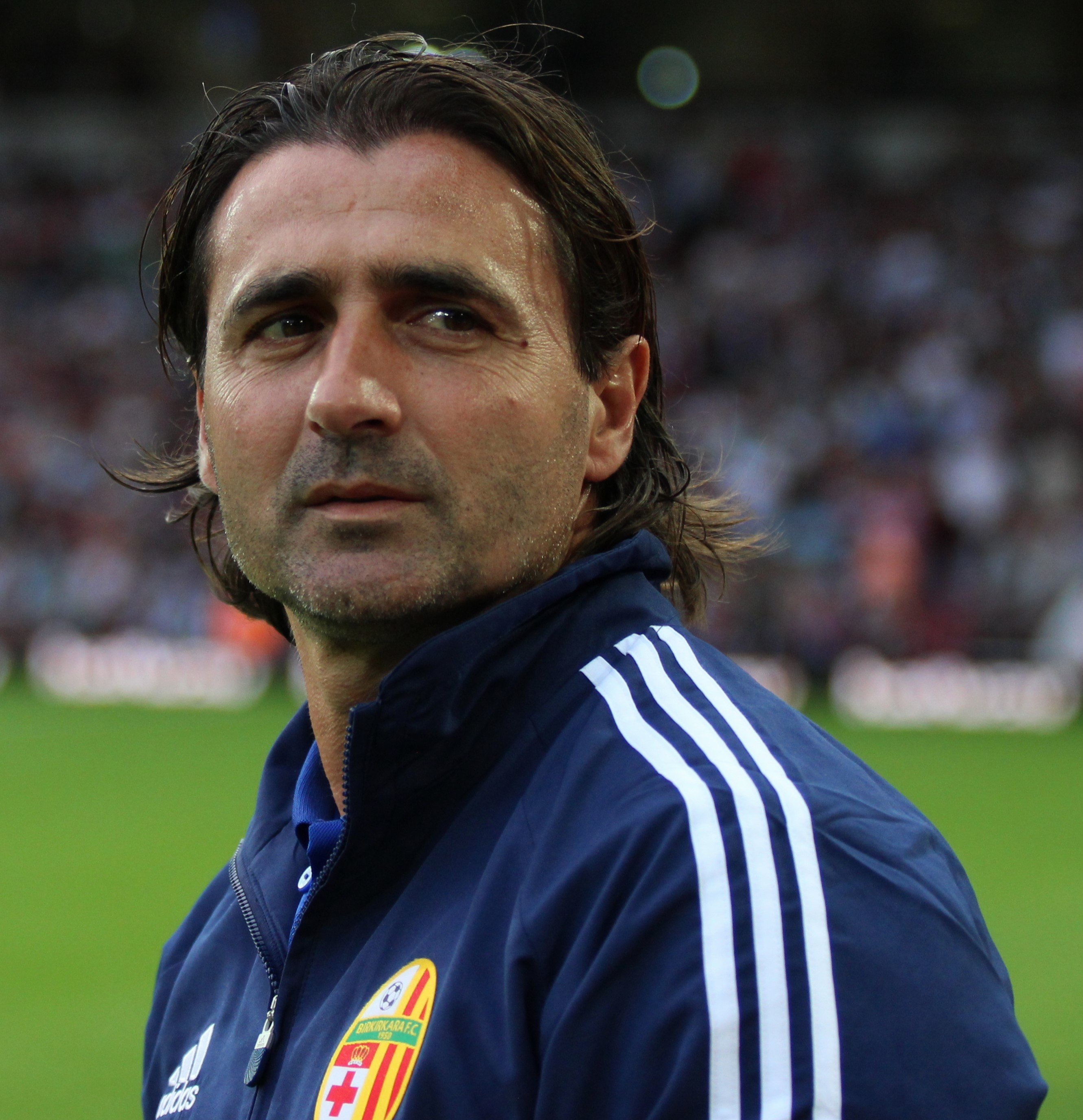 Birkirkara manager Giovanni Tedesco before the game against West Ham.